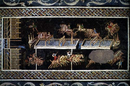 Circus race mosaic, left part - archeologic Museum of Lyon France This pavement was discovered at the beginning of the 11th century on the Presqu’île not far from the Basilica of St. Martin of Ainay. Circuses were very popular throughout the Roman Empire. Unlike courses today, spectators did not bet on numbers, but on one of the four colors that the chariot drivers wore on their jerseys (red, white, blue, and green). But the other lure was the quality of the spectacle that attracted crowds to the circus. Here, two chariots have crashed in the curves. There is no winner in this highly realistic scene: the palm branch is still in the hands of one of the two figures in the center of the median strip.